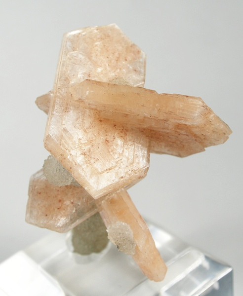 Stilbite-Ca, Quartz Locality: Pune District (Poonah District), Maharashtra, India (Locality at ) Size: 4.8 x 3.5 x 2.8 cm. Pearlescent, doubly terminated, salmon-pink stilbite blades are beautifully attached to a column of translucent, light gray, drusy quartz crystals on this very aesthetic specimen from recent finds at Poonah, India. The drusy quartz column has an interesting, thread-like core running the length of the interior. Complete-all-around and pristine. Ex. D. Trinchillo Sr. Collection.